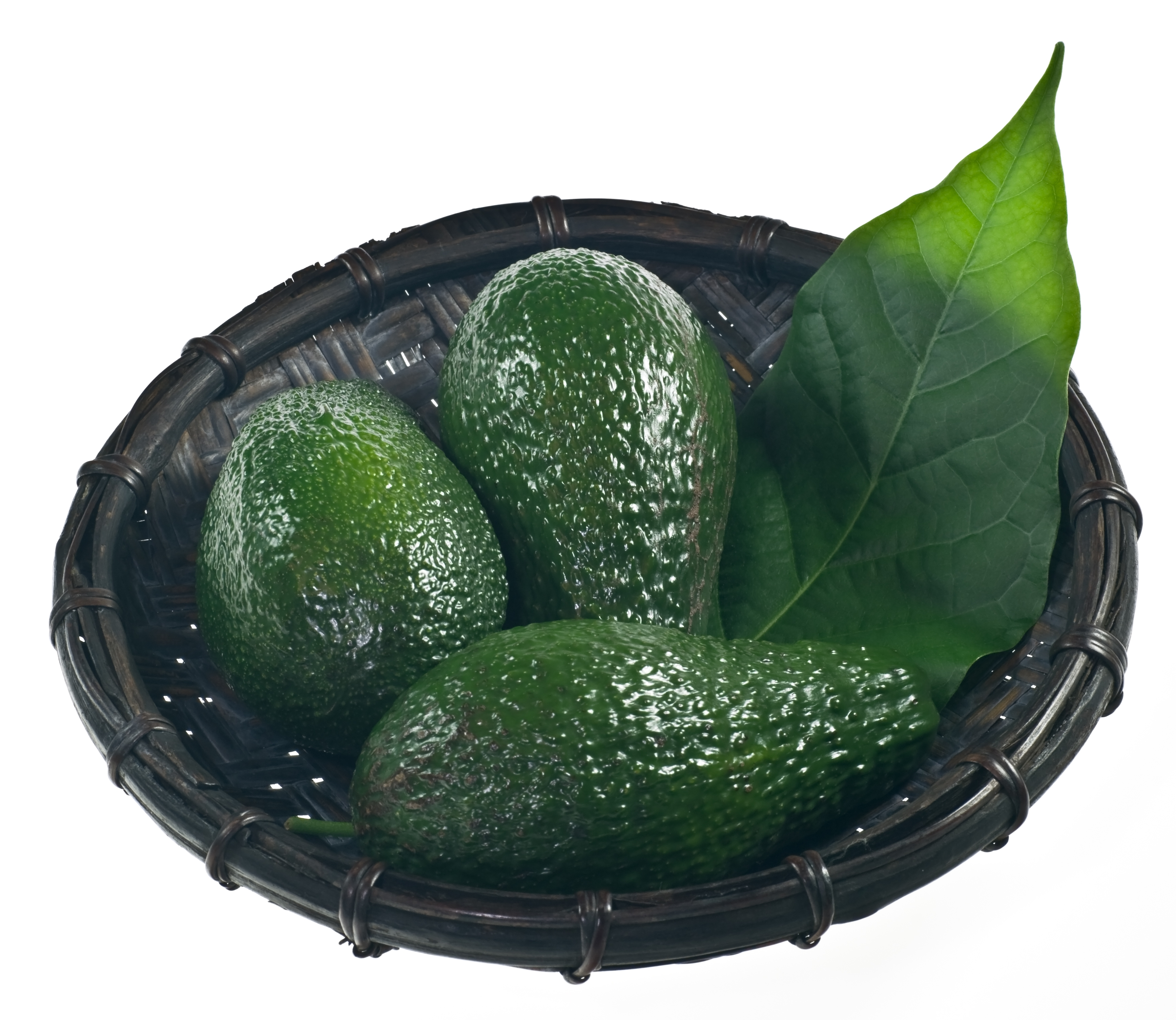 Fruits of avocado (Persea americana)